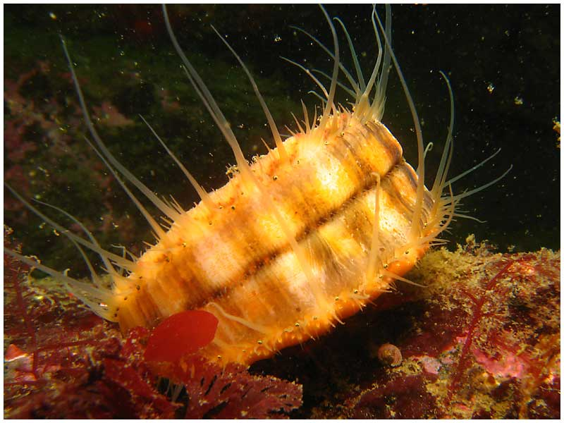 Chlamys hastata at Ogden Point in Victoria BC